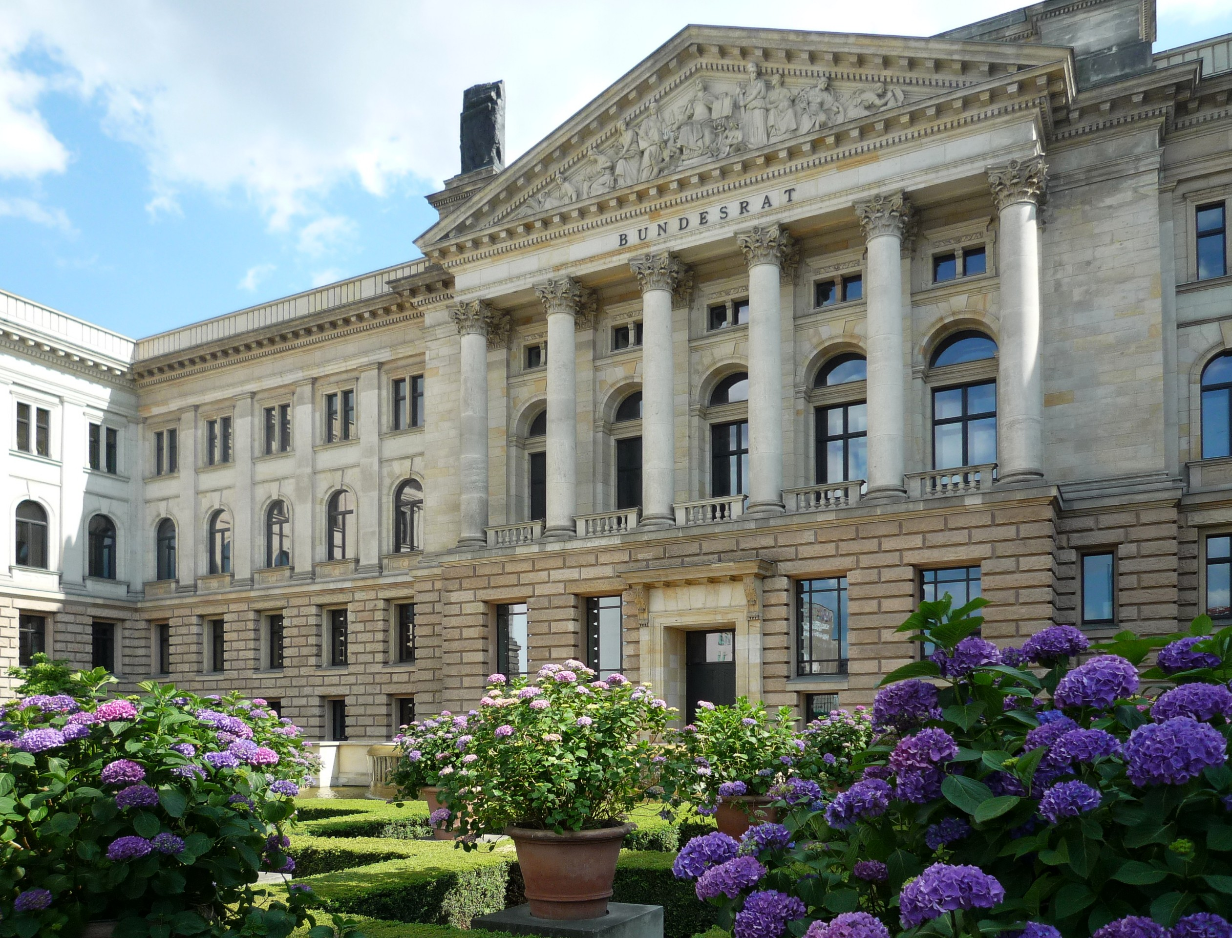 Building of Deutscher Bundesrat (German Federal Council) in Berlin, Leipziger Straße.